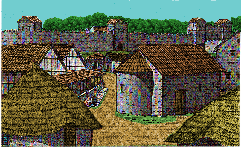 Civilian settlement and Temple of Antenociticus in Benwell/Condercum (2nd century).